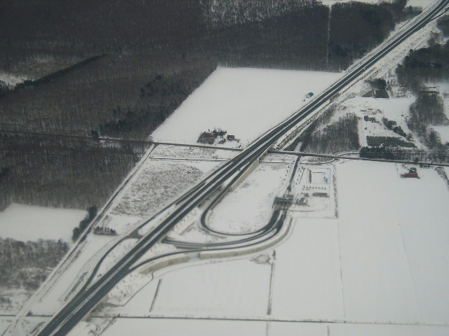 Chitose Higashi Intaachangi (Interchange). Chitose, Hokkaidō Prefecture, Japan.